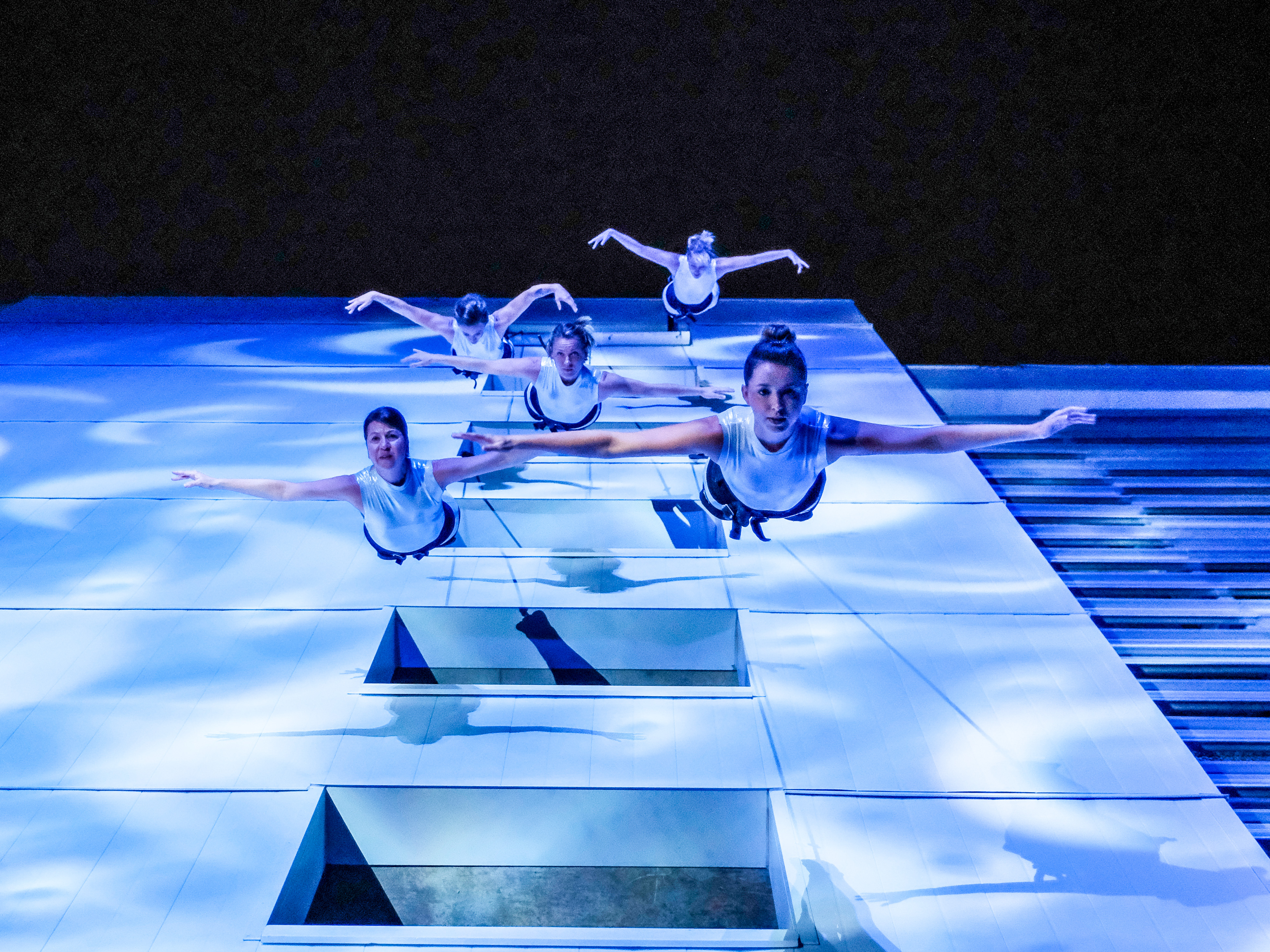 Aerial dance performance on the exterior wall of a parking garage. Performance of "Belonging Part One" by Blue Lapis Light in Austin, Texas, USA.